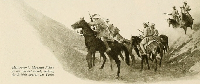 “Mesopotamia Mounted Police in a try Canal” - from the book Fighting America's fight.